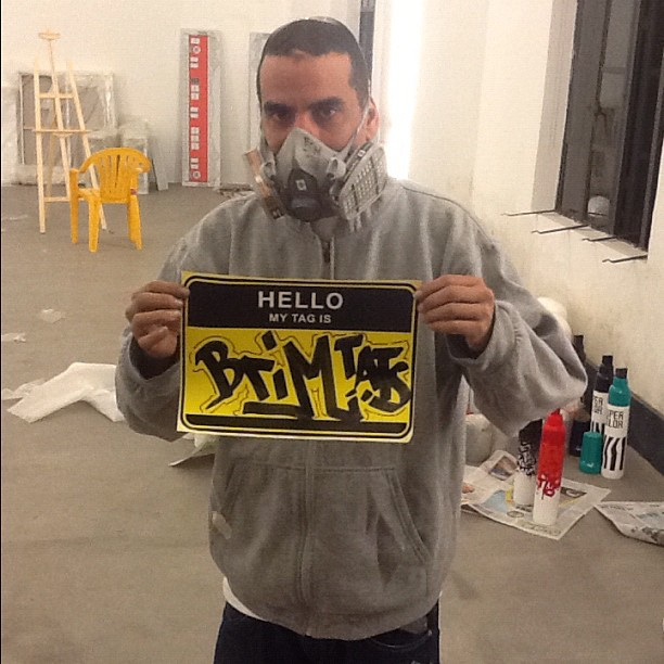 In the Gallery